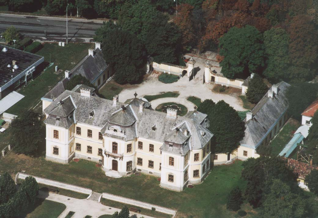 Lamberg Castle - Mór - Hungary - Europe. Designed by Jakab Fellner.